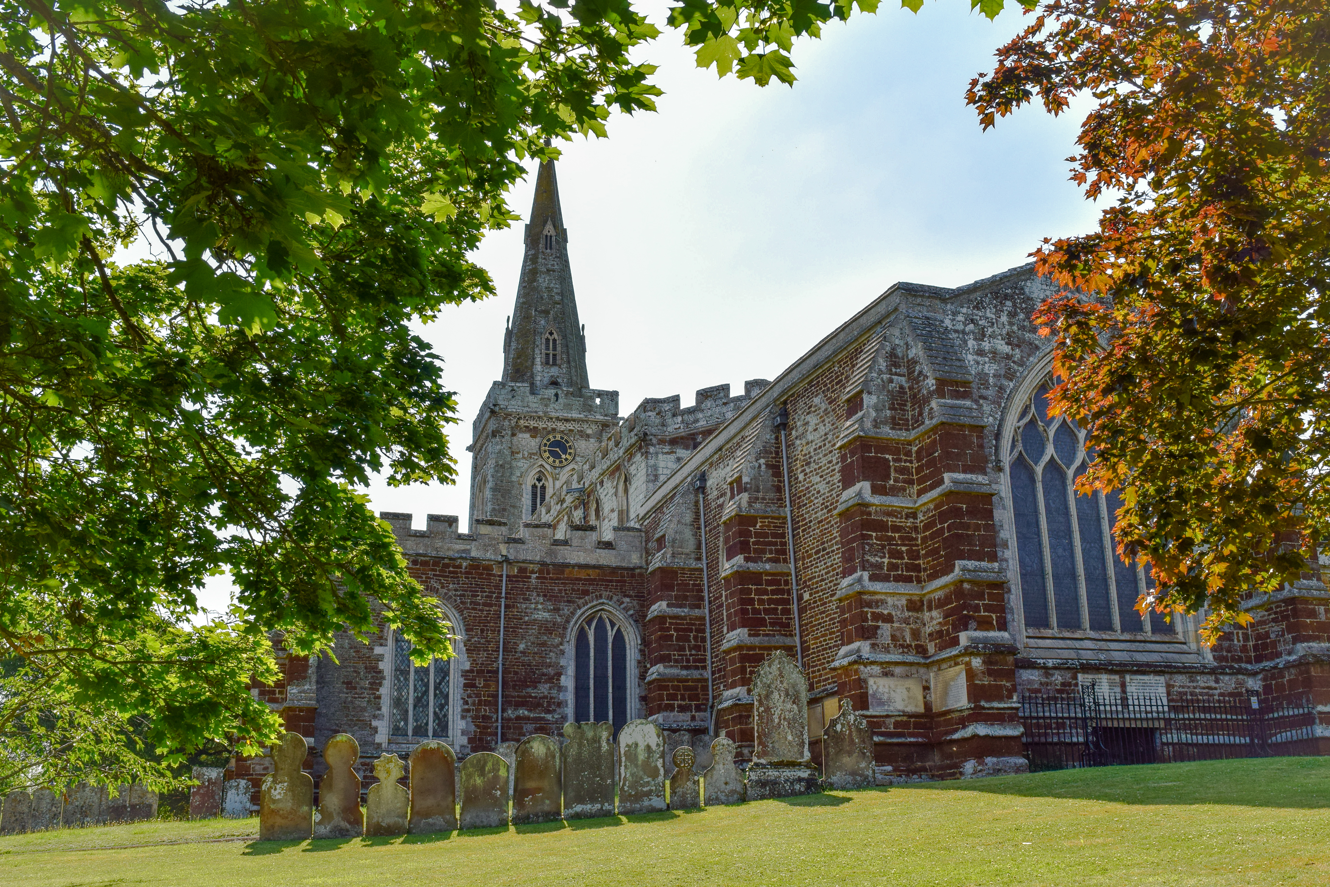 The church of St. Mary the Virgin, Finedon, seen from Church Hill.